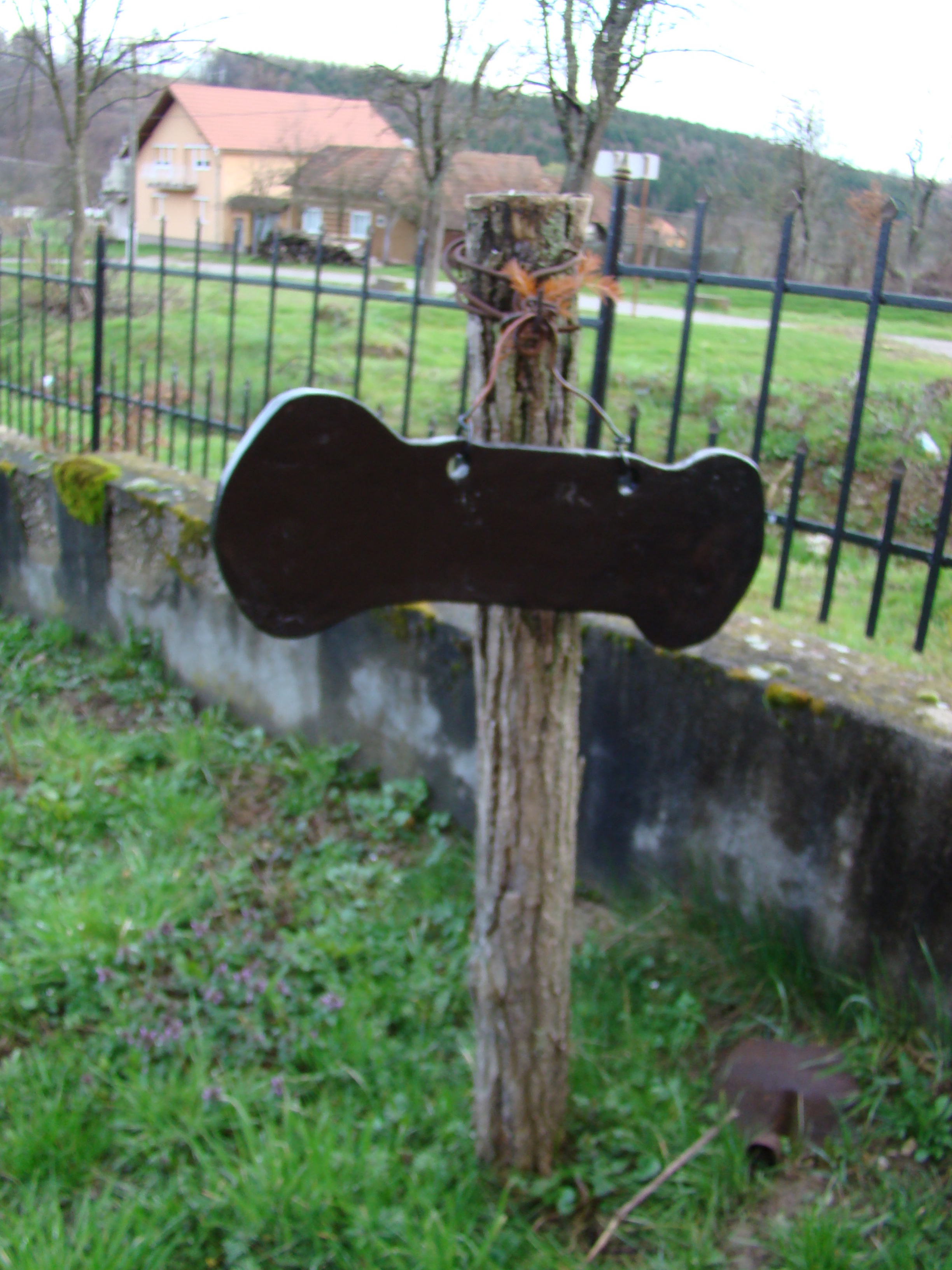 Minead, Arad county, Romania